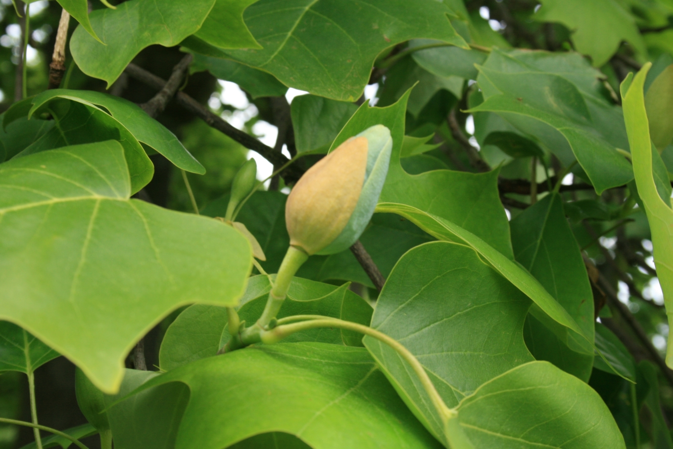 Liriodendron tulipifera: Flower bud. Kew Garden.